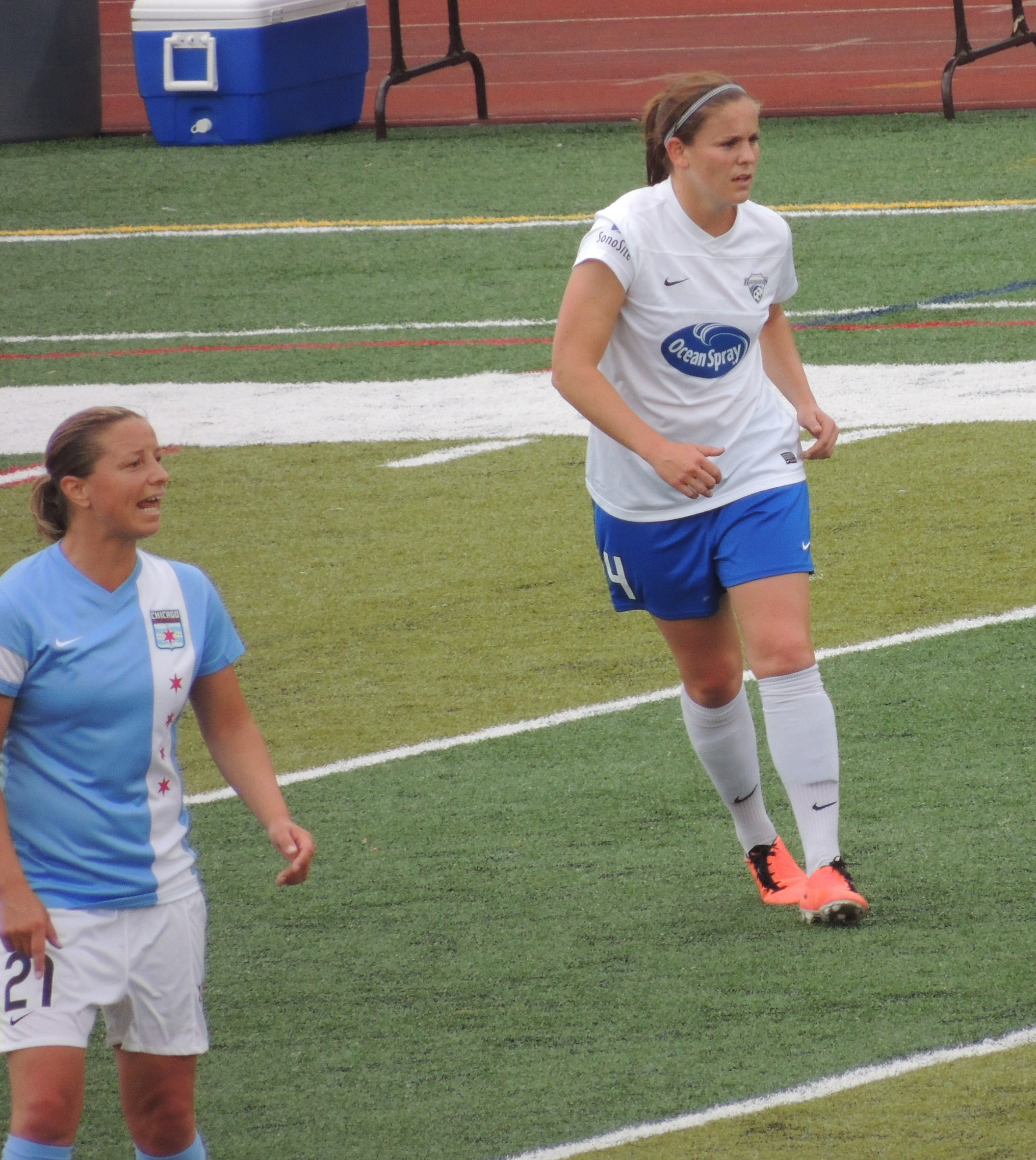 Cat Whitehill and Inka Grings, soccer players; 2013-06-09 Chicago Red Stars vs Boston Breakers